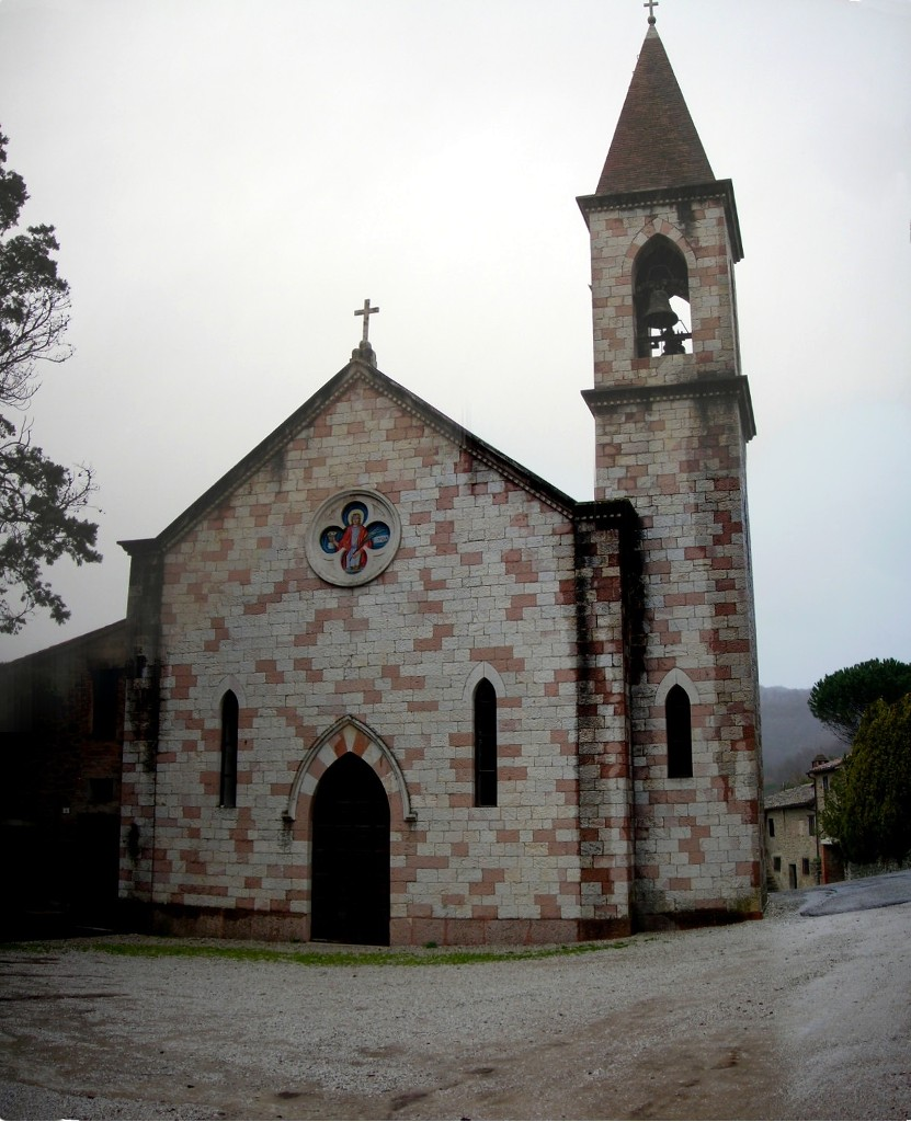 church of St. Michael the Archangel, Vernazzano, Tuoro sul Trasimeno, Perugia, Umbria, Italia